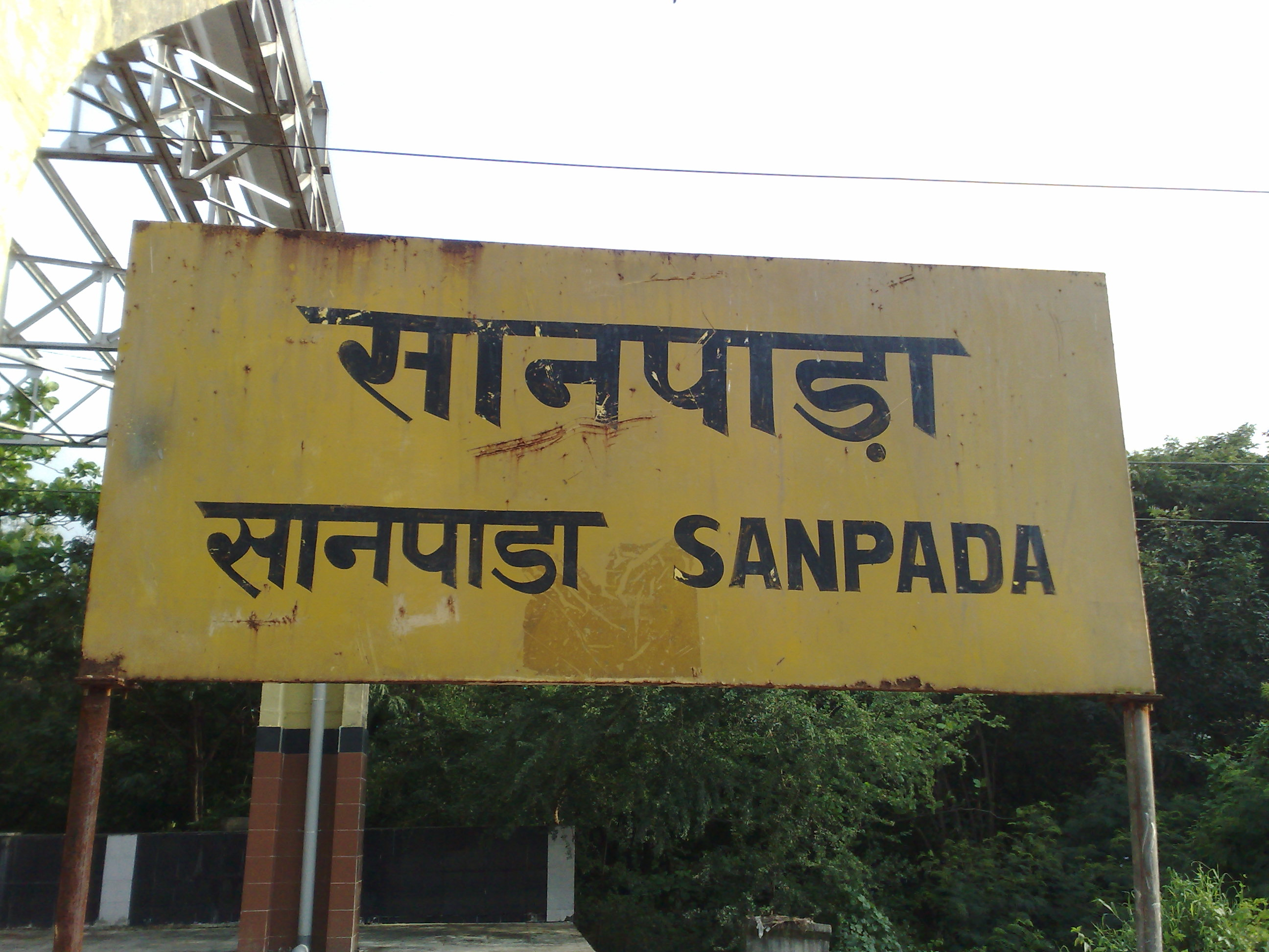 Sanpada station - Stationboard